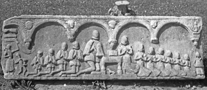 A paper describing the remains of the monument stones to Sir Thomas Cusack given in 1999 to Trinity College Dublin Ref MS11096 Box 98 This stone shows Sir Tom with wife and 13 children